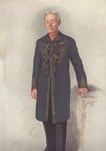 Caricature of R. E. B. Crompton. Caption read "The Road Builder".